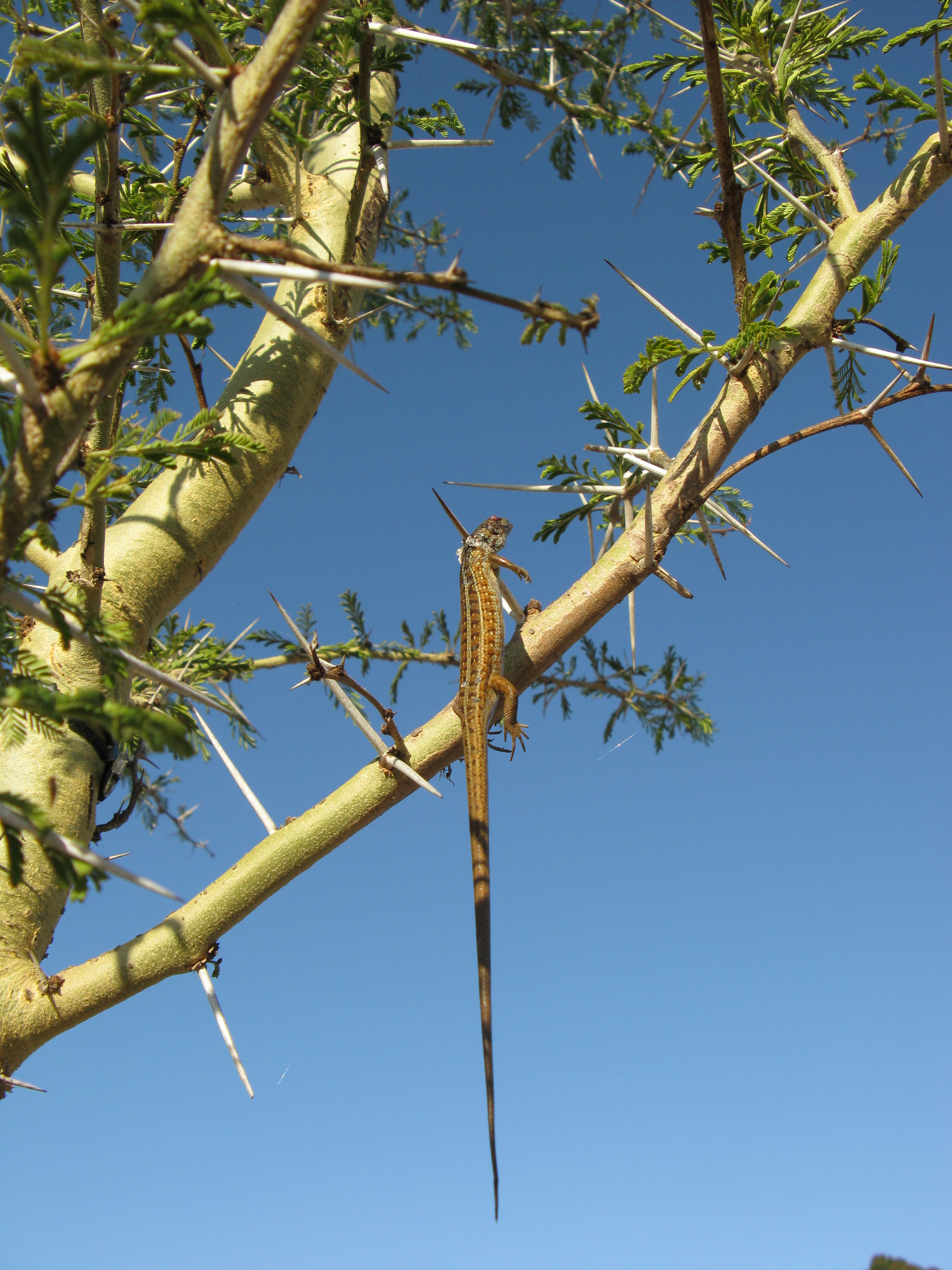 Cape Skink Trachylepis capensis (syn. Mabuya capensis) impaled on thorn of Fever Tree Acacia xanthophloea by Common Fiscal or "Fiscal Shrike" Lanius collaris in a garden near Somerset West, South Africa.